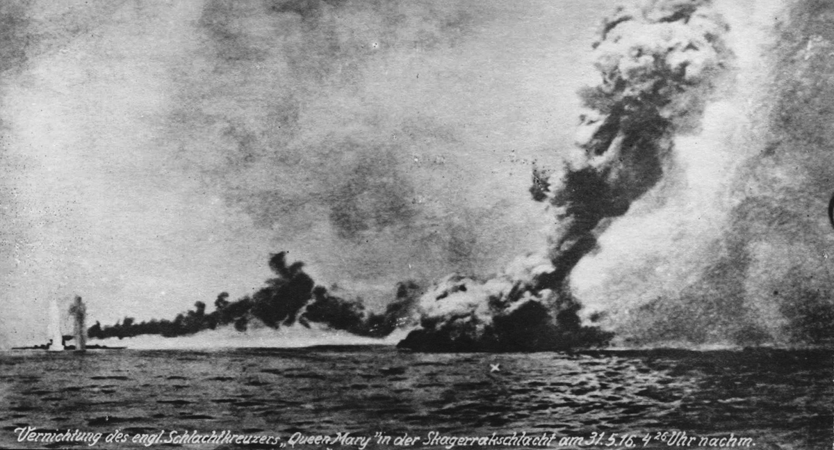 Explosion of the British battle cruiser "HMS Queen Mary" during the Battle of Jutland on 31 May 1916. Of the 1,266 crew members, only 20 were rescued.